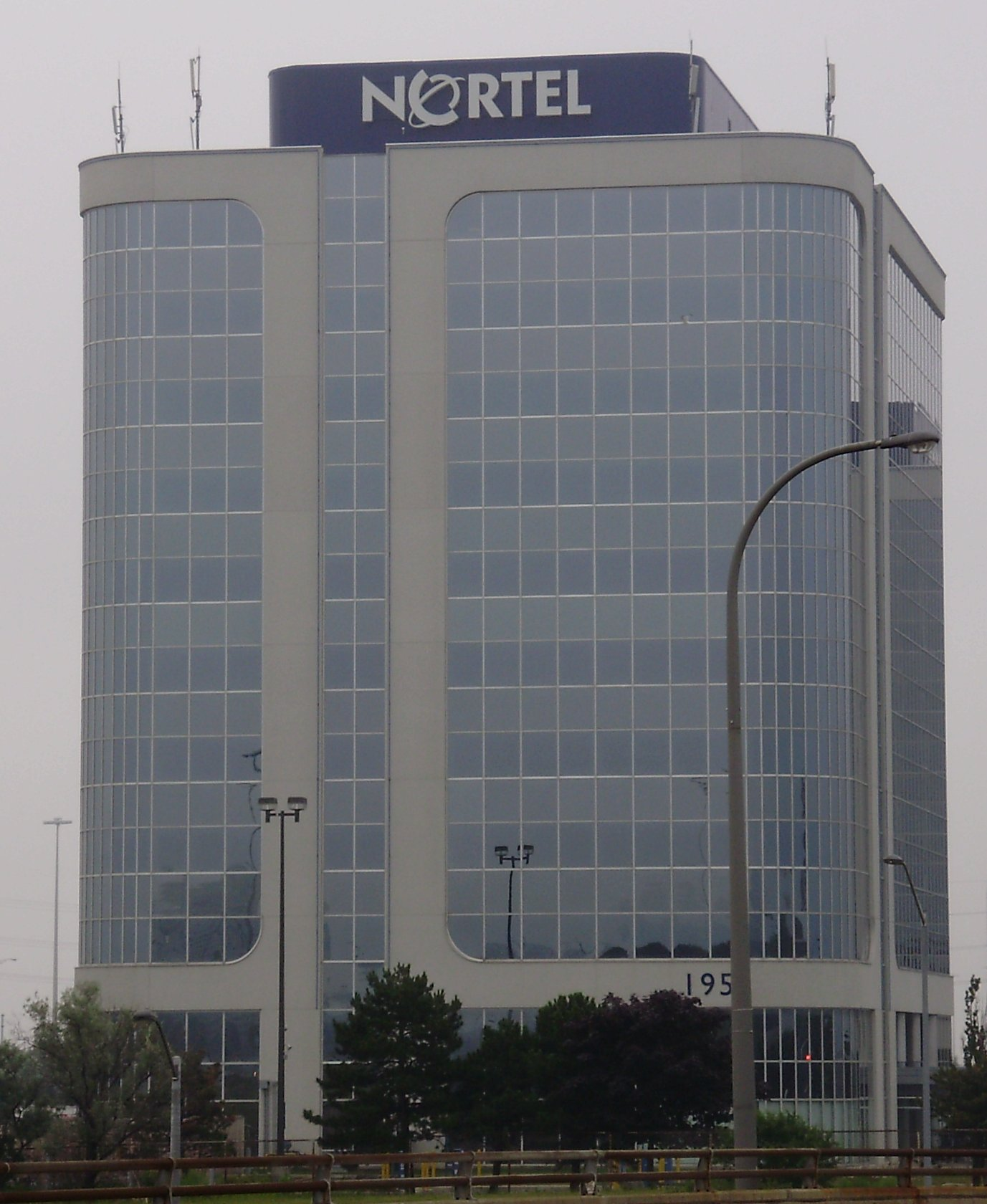 The corporate headquarters of Nortel, located at 195 The West Mall in Toronto, Canada.